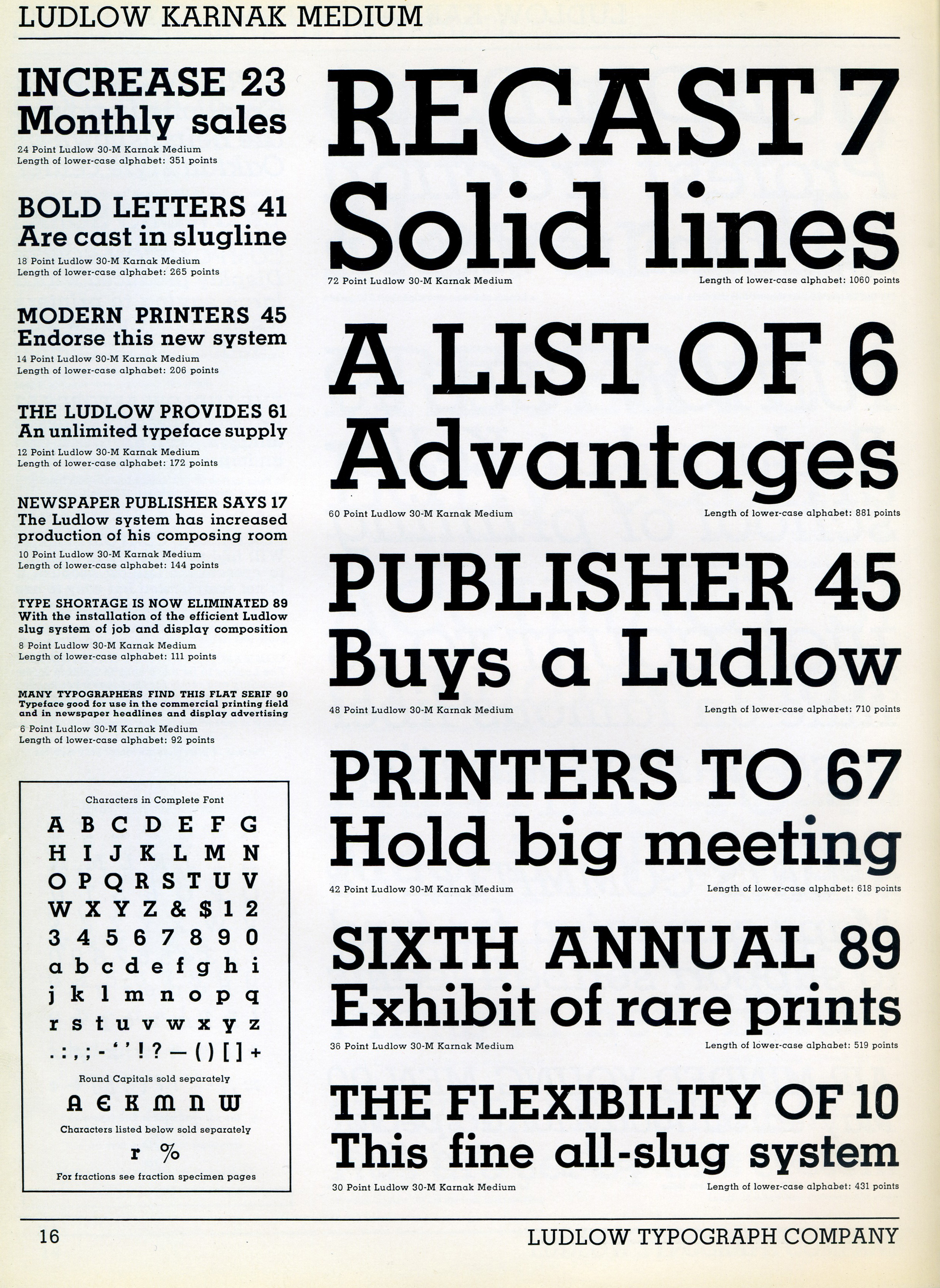 See more vintage type specimens at